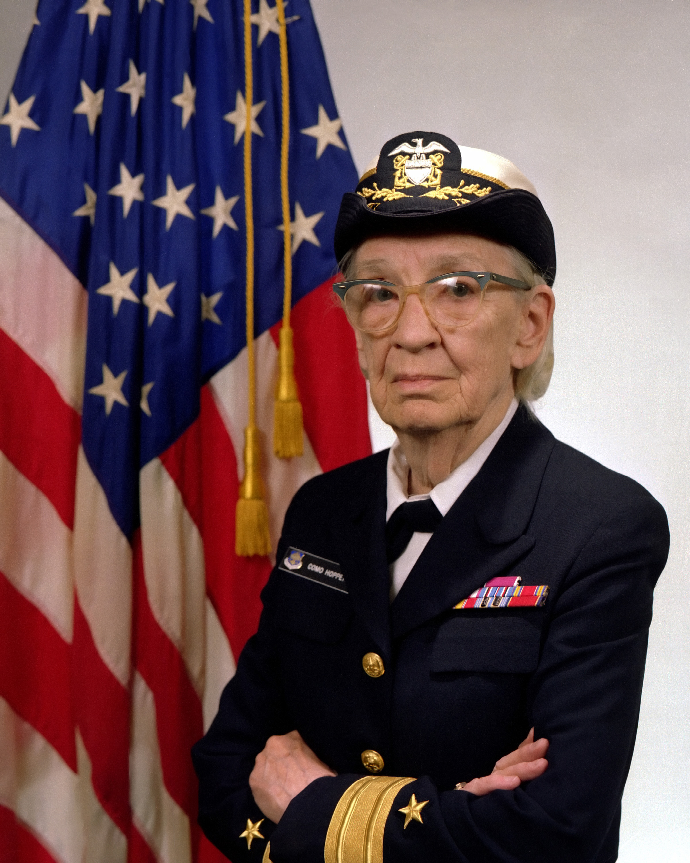 Commodore Grace M. Hopper, USN (covered).